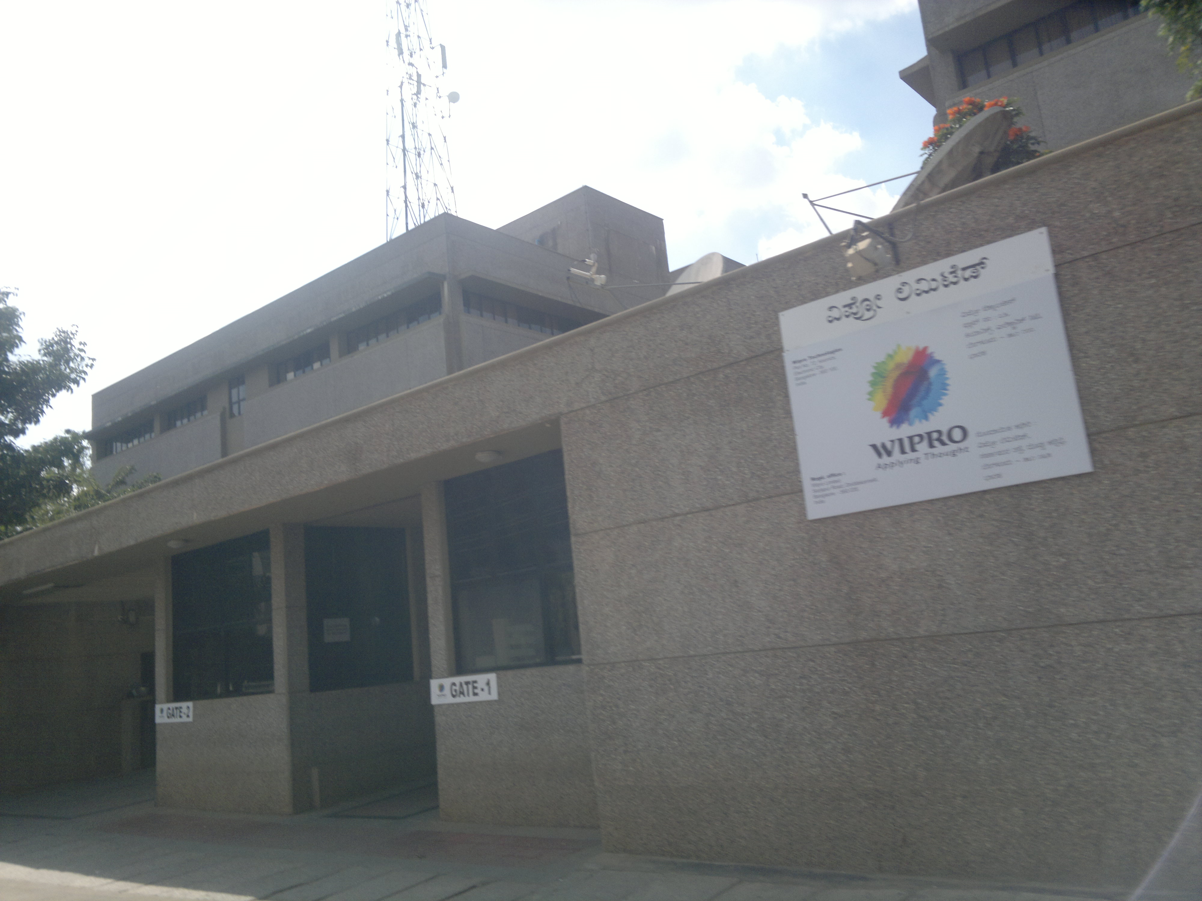 Wipro EC1 office, Front gate